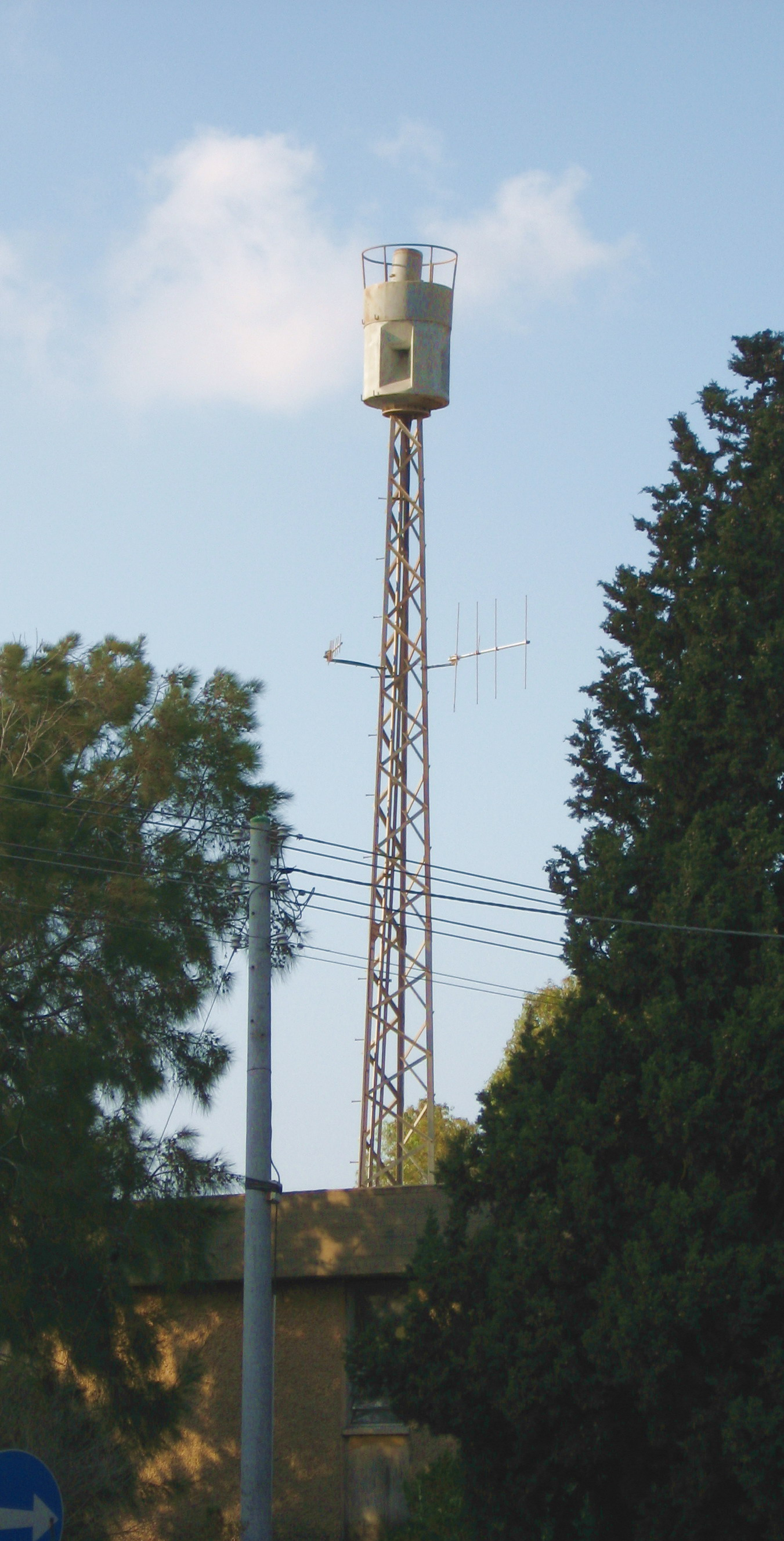 A typical Germanic style Pnuematic Israeli air-raid siren in Haifa. This siren was produced by the German company Hörmann GmbH between 1967 and 1973; model name is F71.